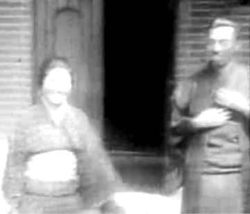 Japanese Prime Minister Fumimaro Konoe (1891–1945, in office 1937–39 and 1940–41) and his wife Chiyoko relax at their mansion.